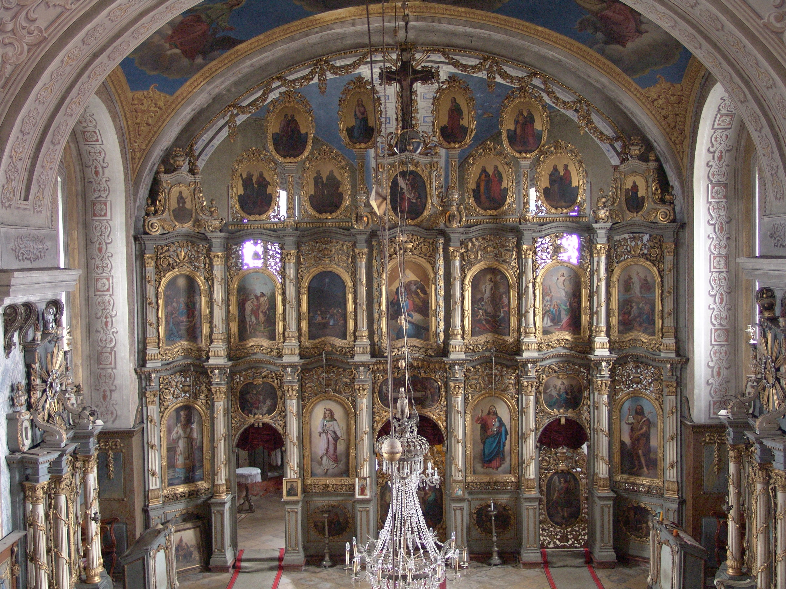 Serbian Orthodox church of Saint Nicholas in Tomaševac - iconostasis